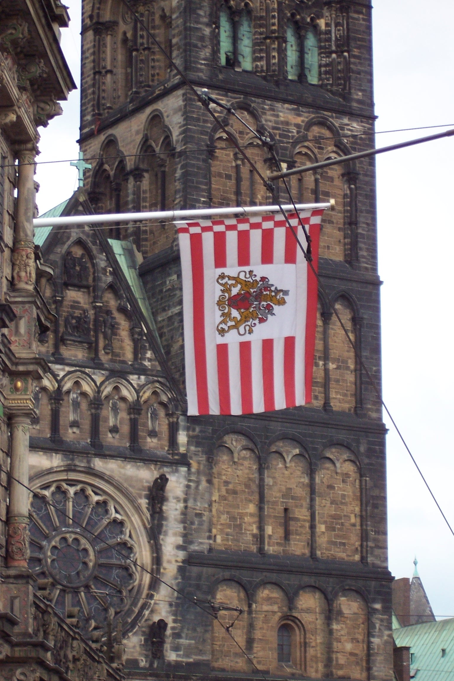 Bremen: flag flying from the Rathaus, in the background: Bremer Dom